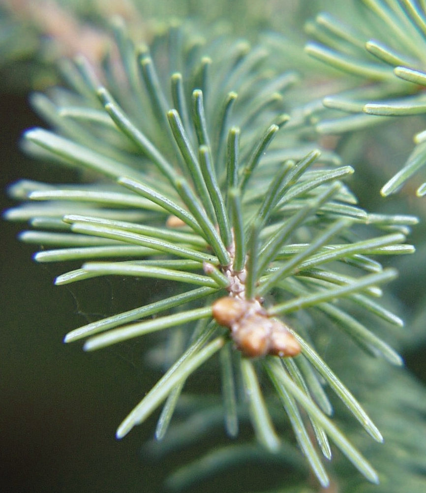 Leaves of the White Spruce (Picea glauca) are needle-shaped and the arrangement is spiral